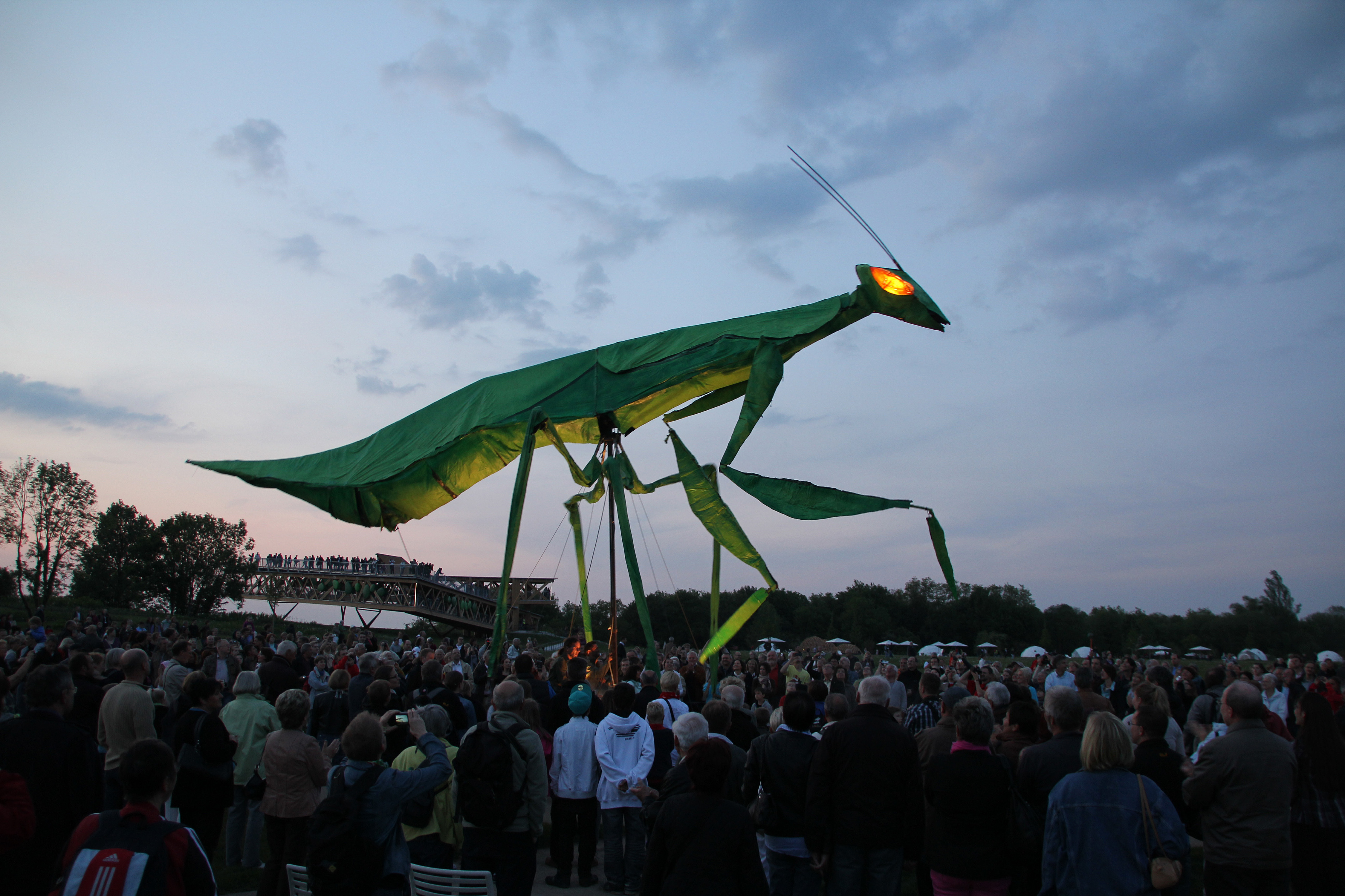 Federal Horticultural Show 2011 in Koblenz - Opening of Kultursommer Rheinland-Pfalz